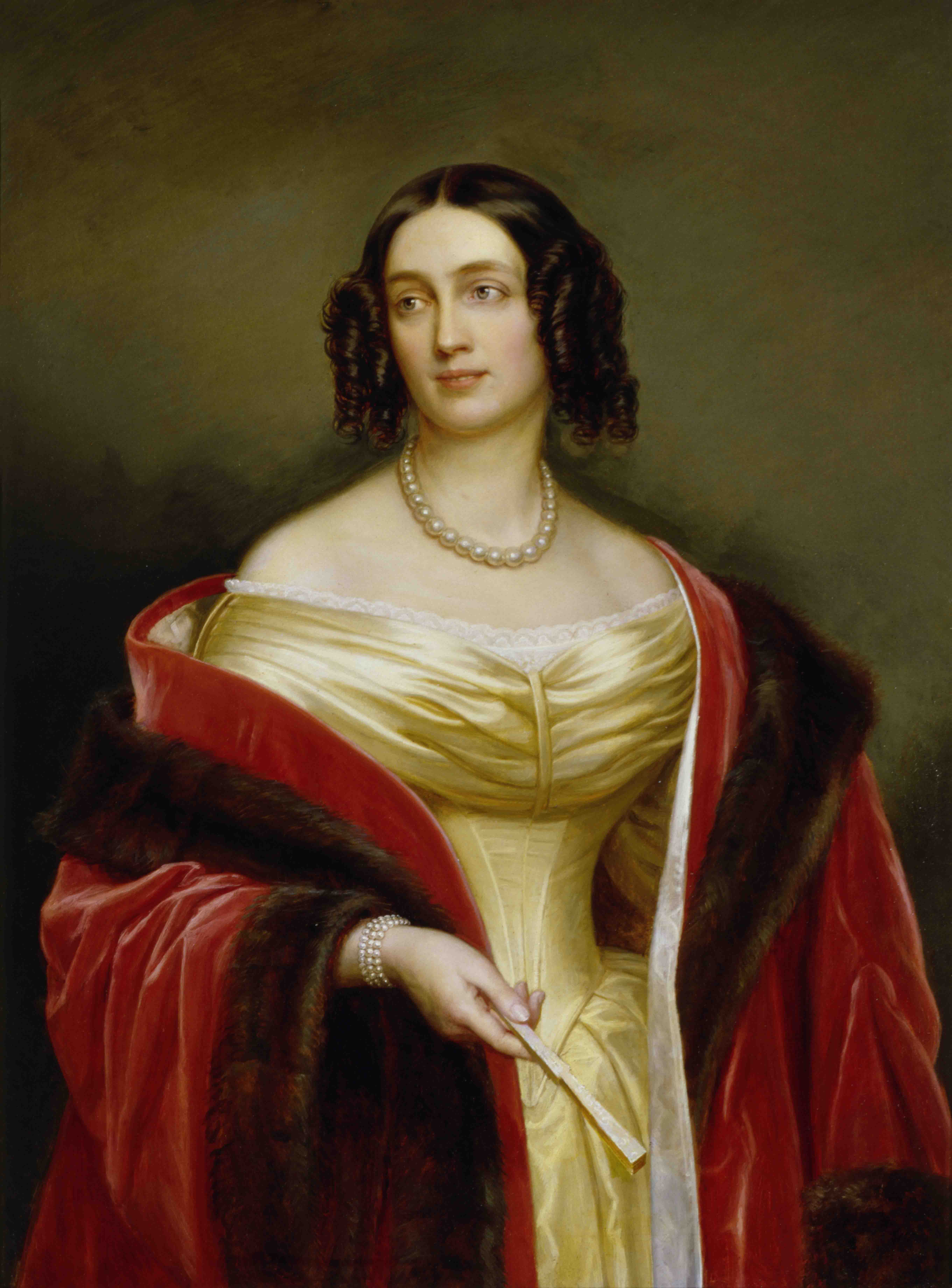 Portrait of Elisabeth Ludovika of Bavaria (1801-1873), Queen of Prussia